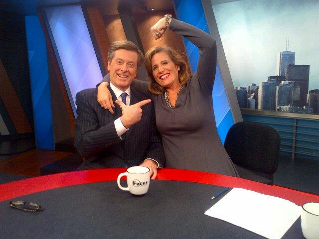 Former Ontario Progressive Conservative Party leader John Tory and Ontario Liberal Party leadership candidate Sandra Pupatello.